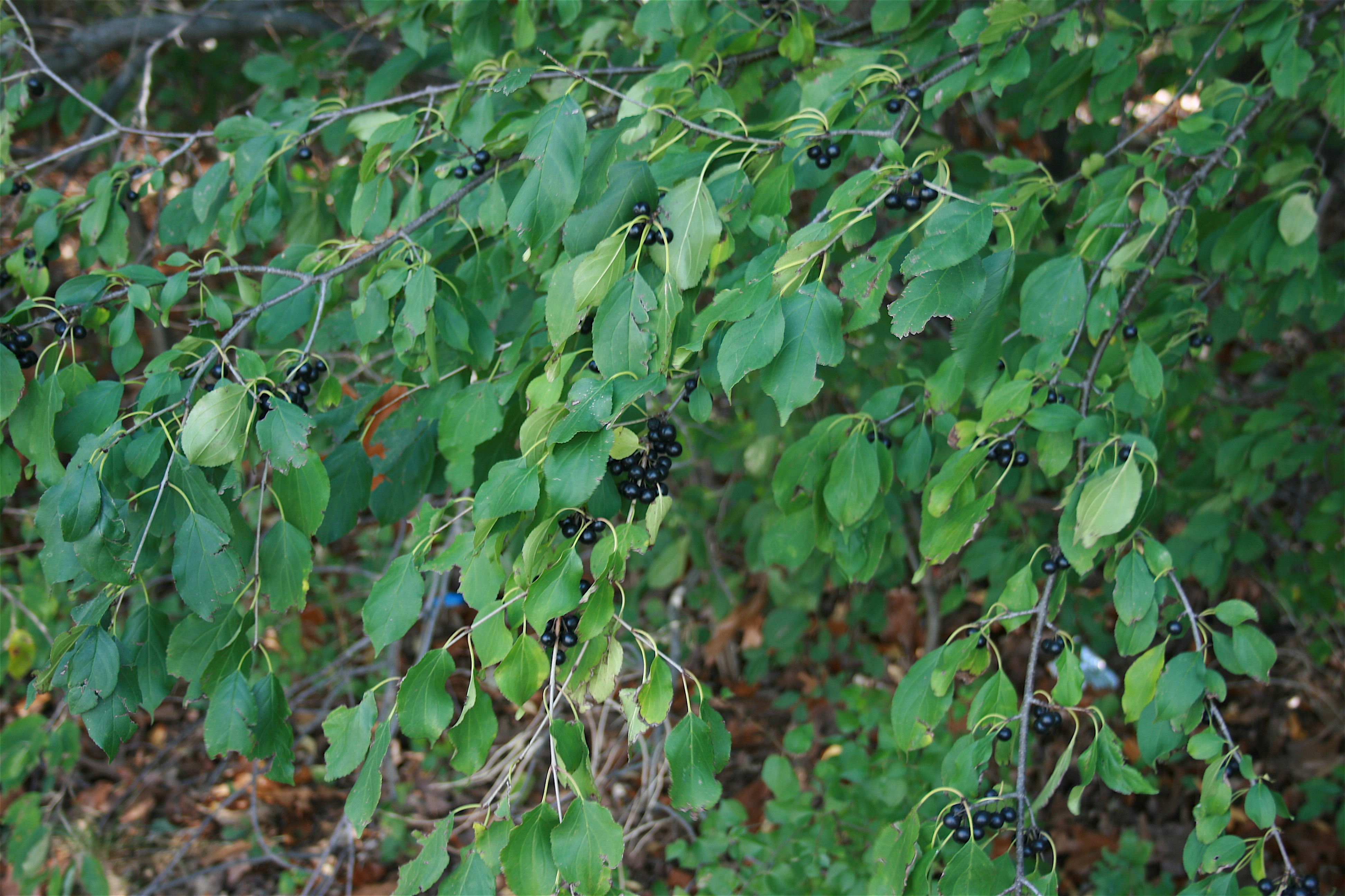 Buckthorn (Rhamnus catharctica) in Portage, MI.